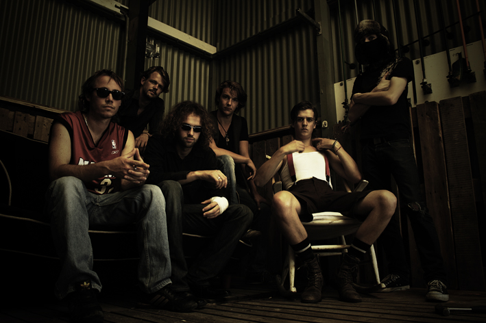 The Fudge